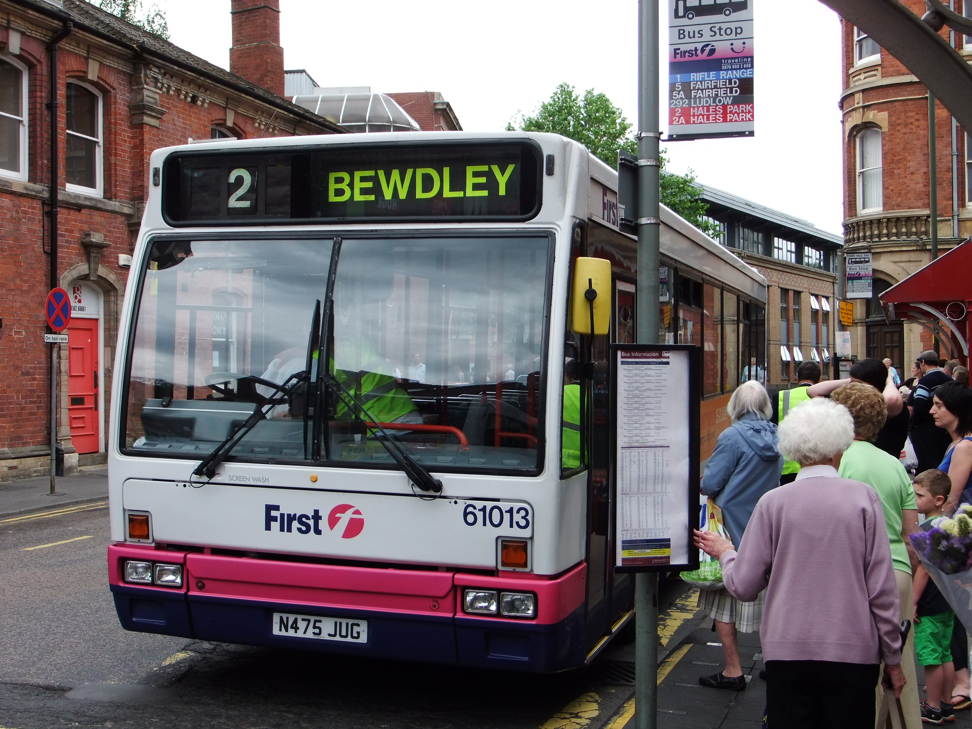 Bus on Exchange Street, Kidderminster, Worcestershire, England.